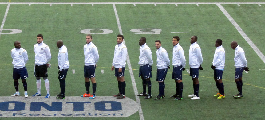 York Region Shooters line-up before CSL Championship final against Toronto Croatia on October 26, 2014.